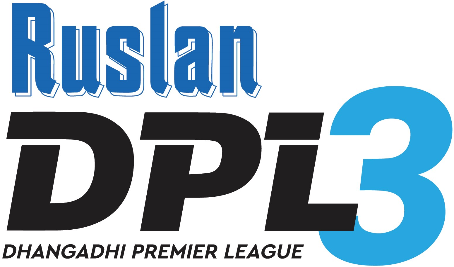 Official logo of DPL 3.